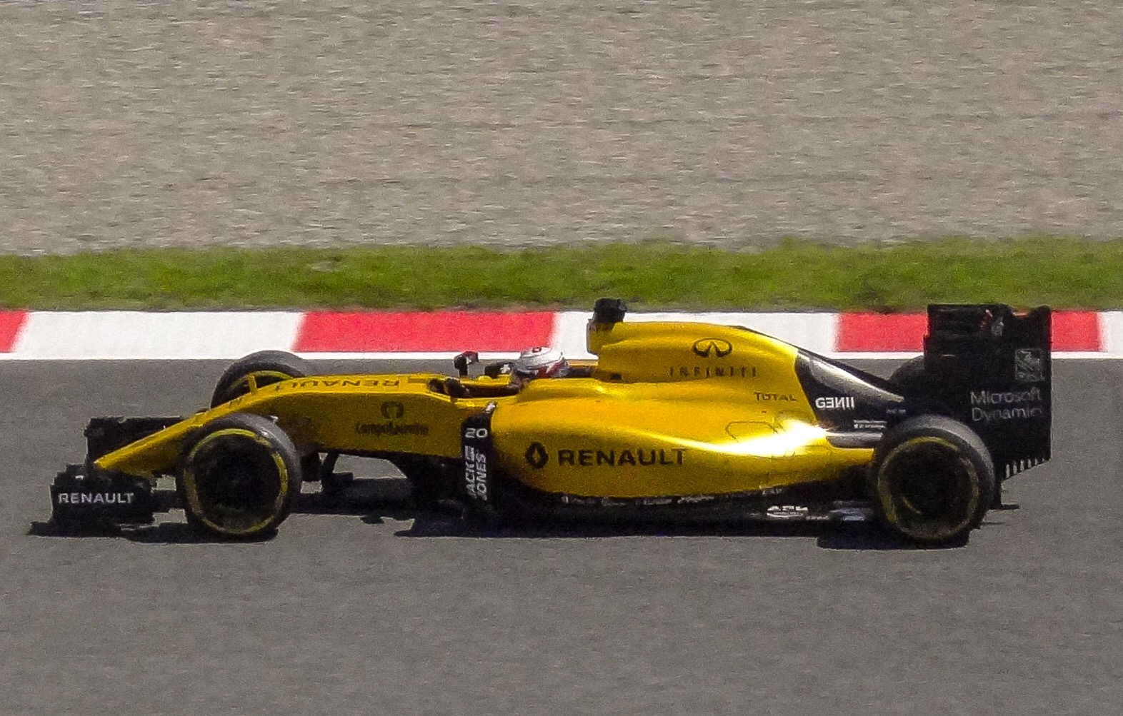 Kevin Magnussen at the 2016 Spanish Grand Prix - Circuit de Barcelona-Catalunya.